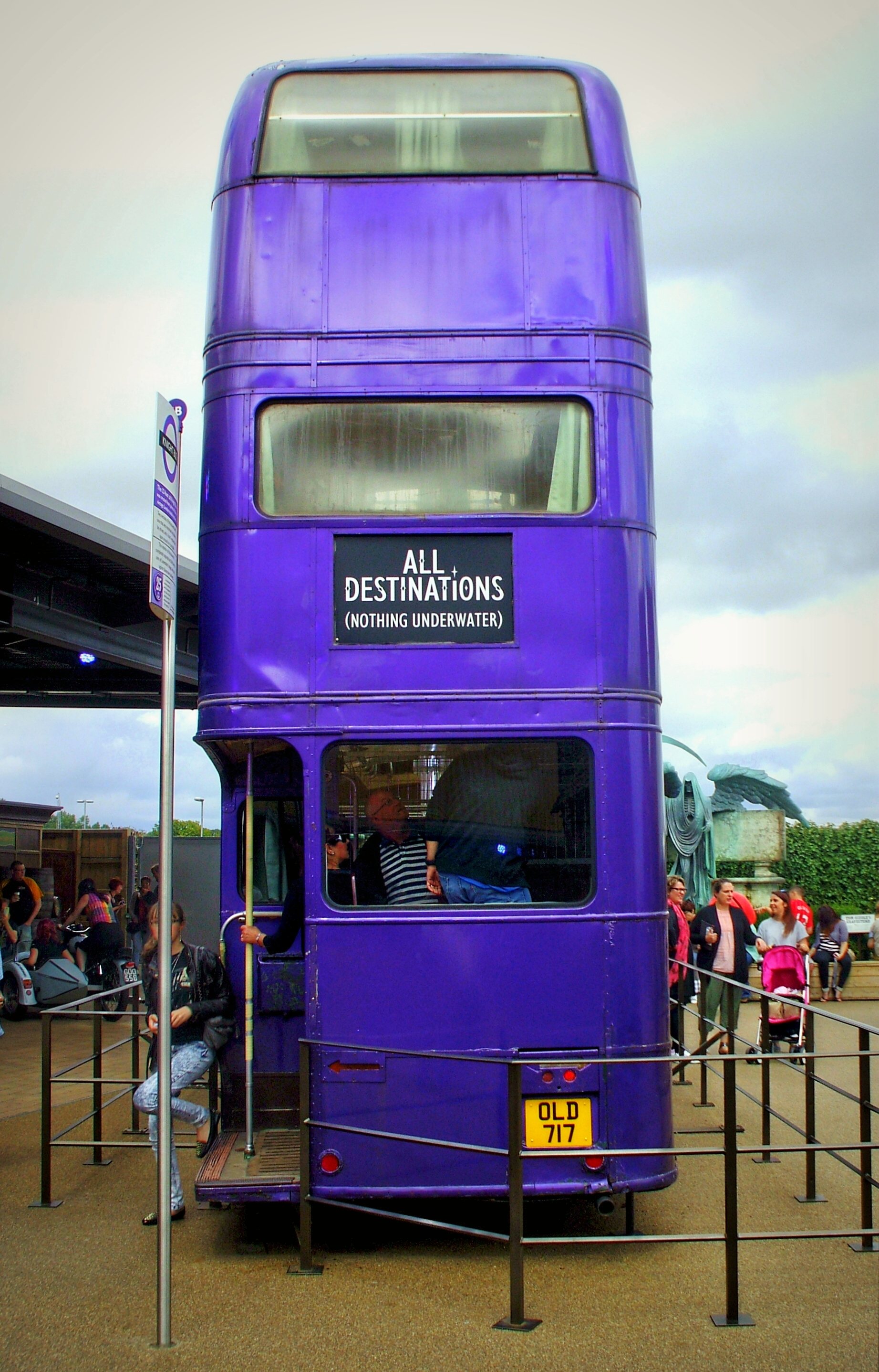 The Knight Bus is a purple triple-decker, specially modified AEC Regent III RT bus, used in the Harry Potter film series at Warner Bros. Studios, Leavesden, UK